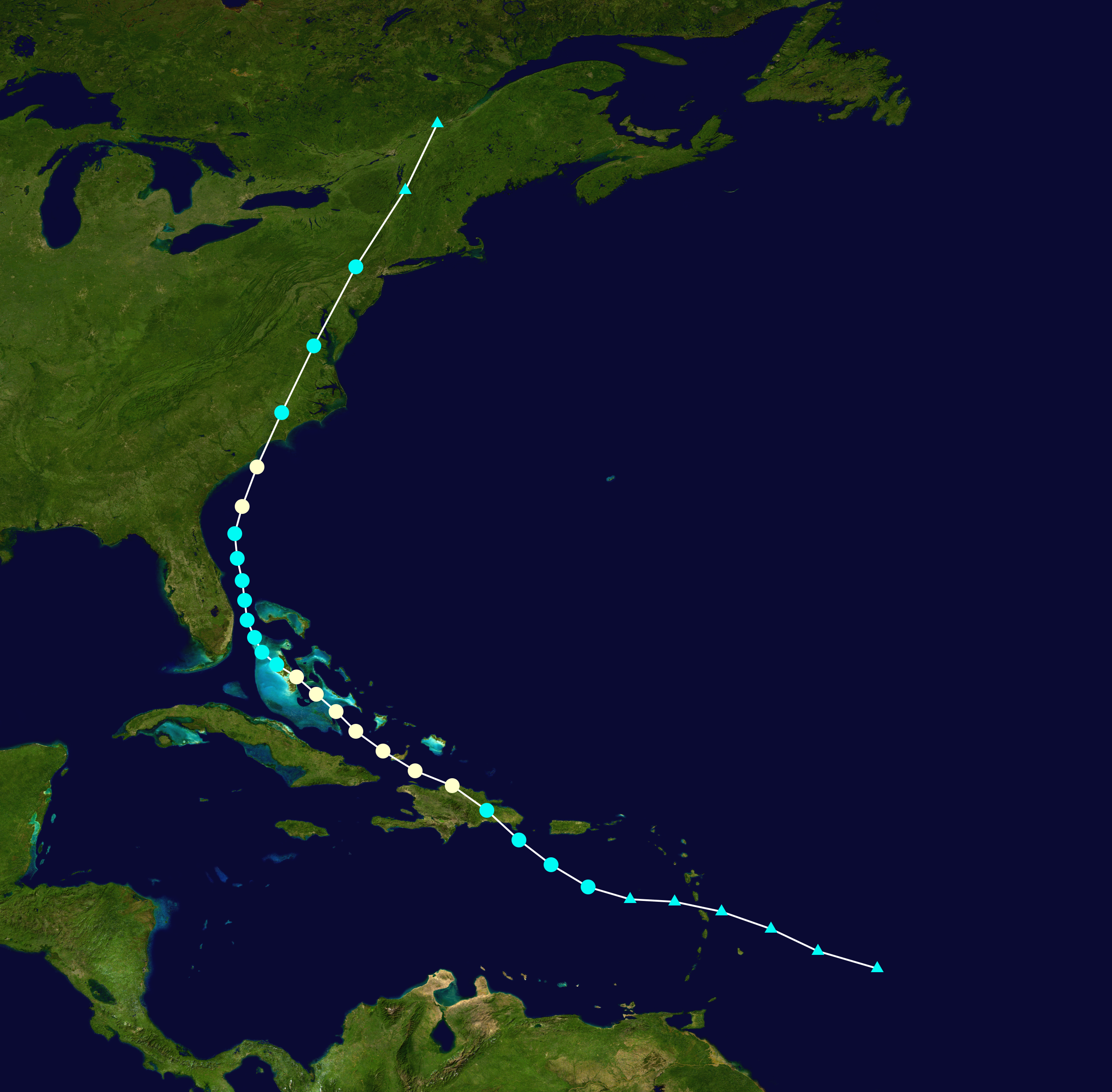 Track map of Hurricane Isaias of the 2020 Atlantic hurricane season. The points show the location of the storm at 6-hour intervals. The colour represents the storm's maximum sustained wind speeds as classified in the Saffir–Simpson scale (see below), and the shape of the data points represent the nature of the storm, according to the legend below. Saffir–Simpson scale Tropical depression≤38 mph≤62 km/h Category 3111–129 mph178–208 km/h Tropical storm39–73 mph63–118 km/h Category 4130–156 mph209–251 km/h Category 174–95 mph119–153 km/h Category 5≥157 mph≥252 km/h Category 296–110 mph154–177 km/h Unknown Storm type Tropical cyclone Subtropical cyclone Extratropical cyclone / Remnant low / Tropical disturbance / Monsoon depression